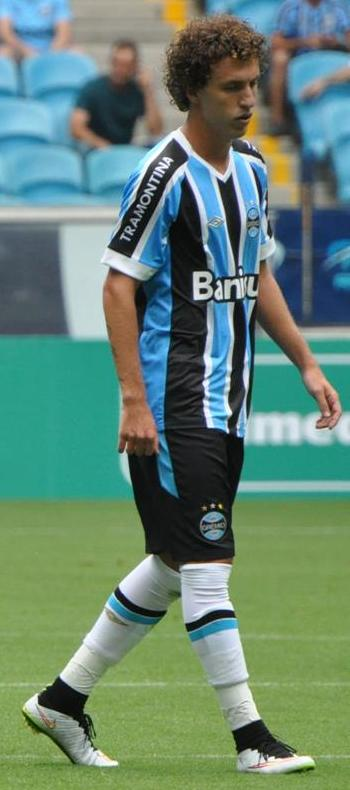 DSC_0108 (Copy)